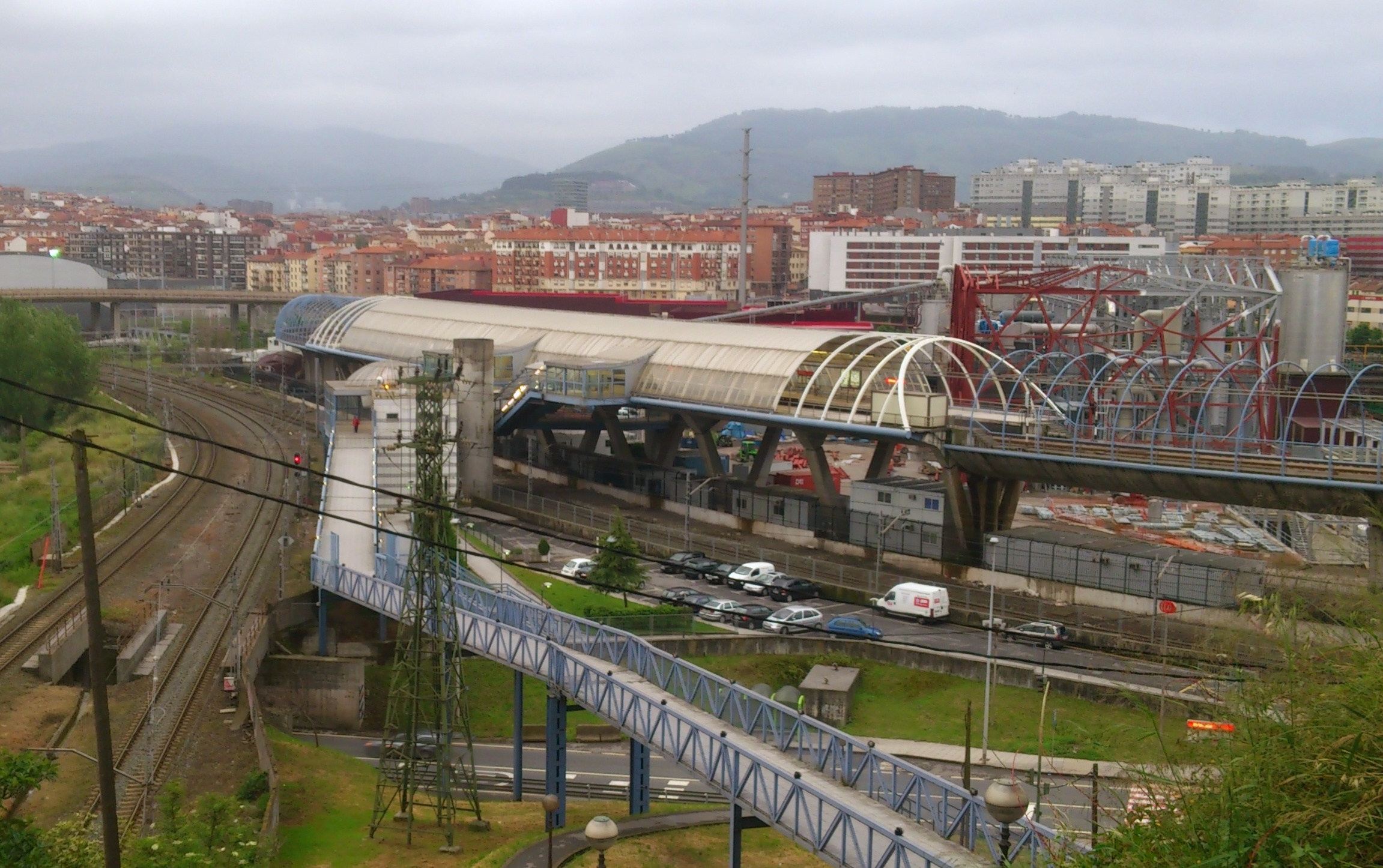 Urbinaga metro station